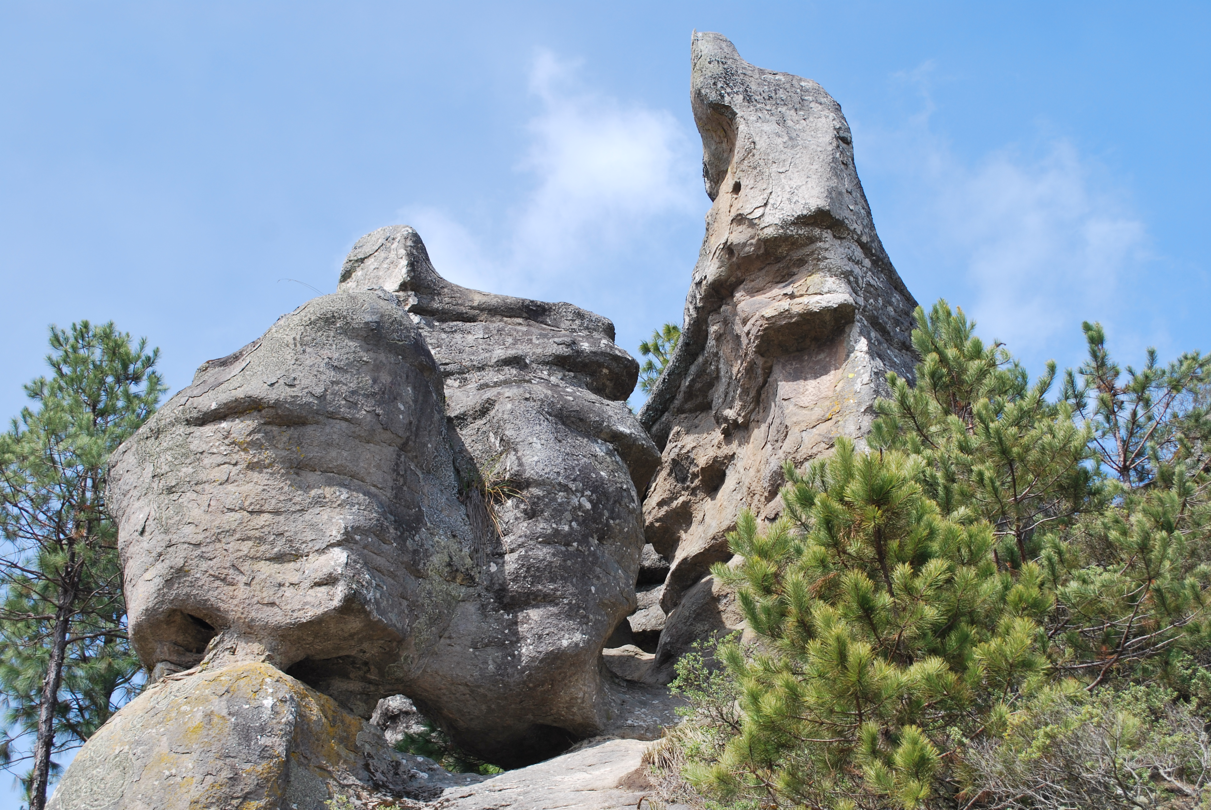 Rock formation at the Valle de las Piedras Encimadas in Zacatlán, Puebla, Mexico